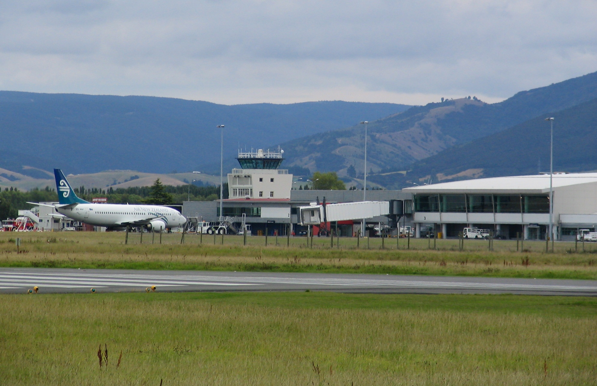 Dunedin International Airport, New Zealand (IATA: DUD, ICAO: NZDN), looking west showing control tower and terminal building. Air New Zealand Boeing 737-300 ZK-NGF being pushed back.